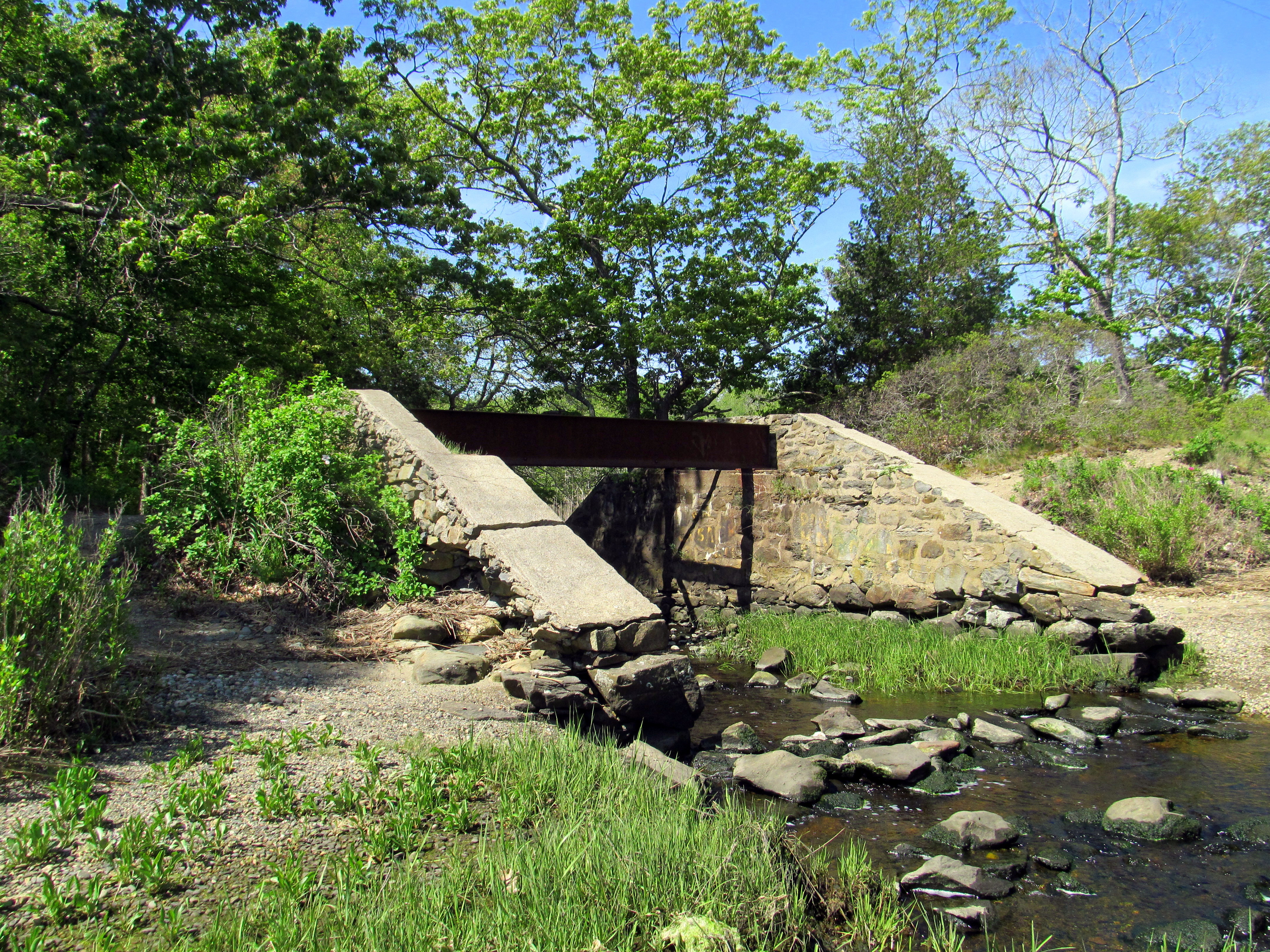 The remains of a Sea View Railroad bridge over Wannuchecomecut Brook in North Kingstown, seen in May 2017